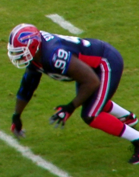 Bills defense vs Dolphins offense, 2010